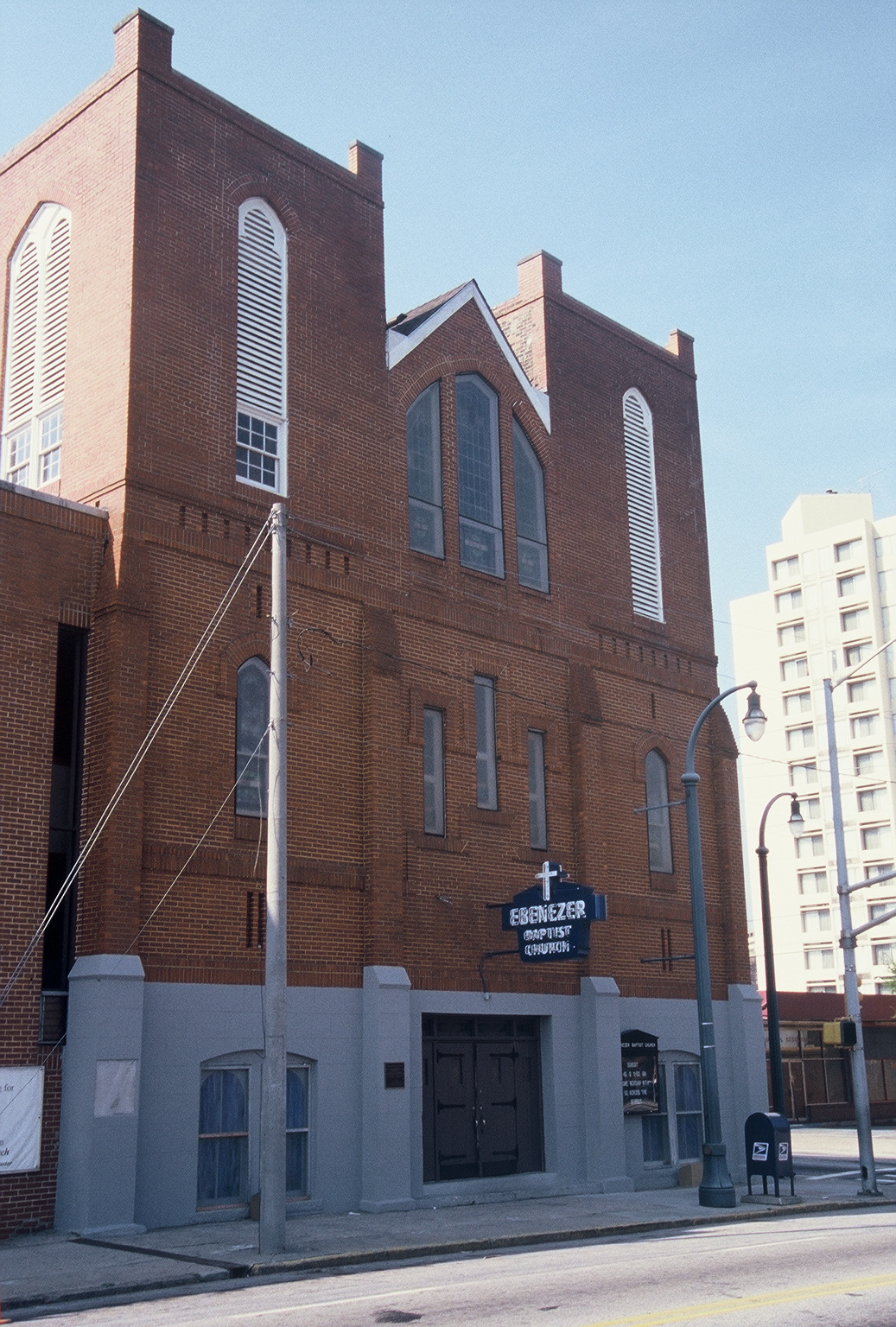 Just past noon on January 15, 1929, a son was born to the Reverend and Mrs. Martin Luther King, Sr., in an upstairs bedroom of 501 Auburn Avenue, in Atlanta, Georgia. It was in these surroundings of home, church (Ebenezer Baptist Church), and neighborhood (Sweet Auburn) that "M.L." experienced family and Christian love, segregation in the days of "Jim Crow" laws, diligence and tolerance.